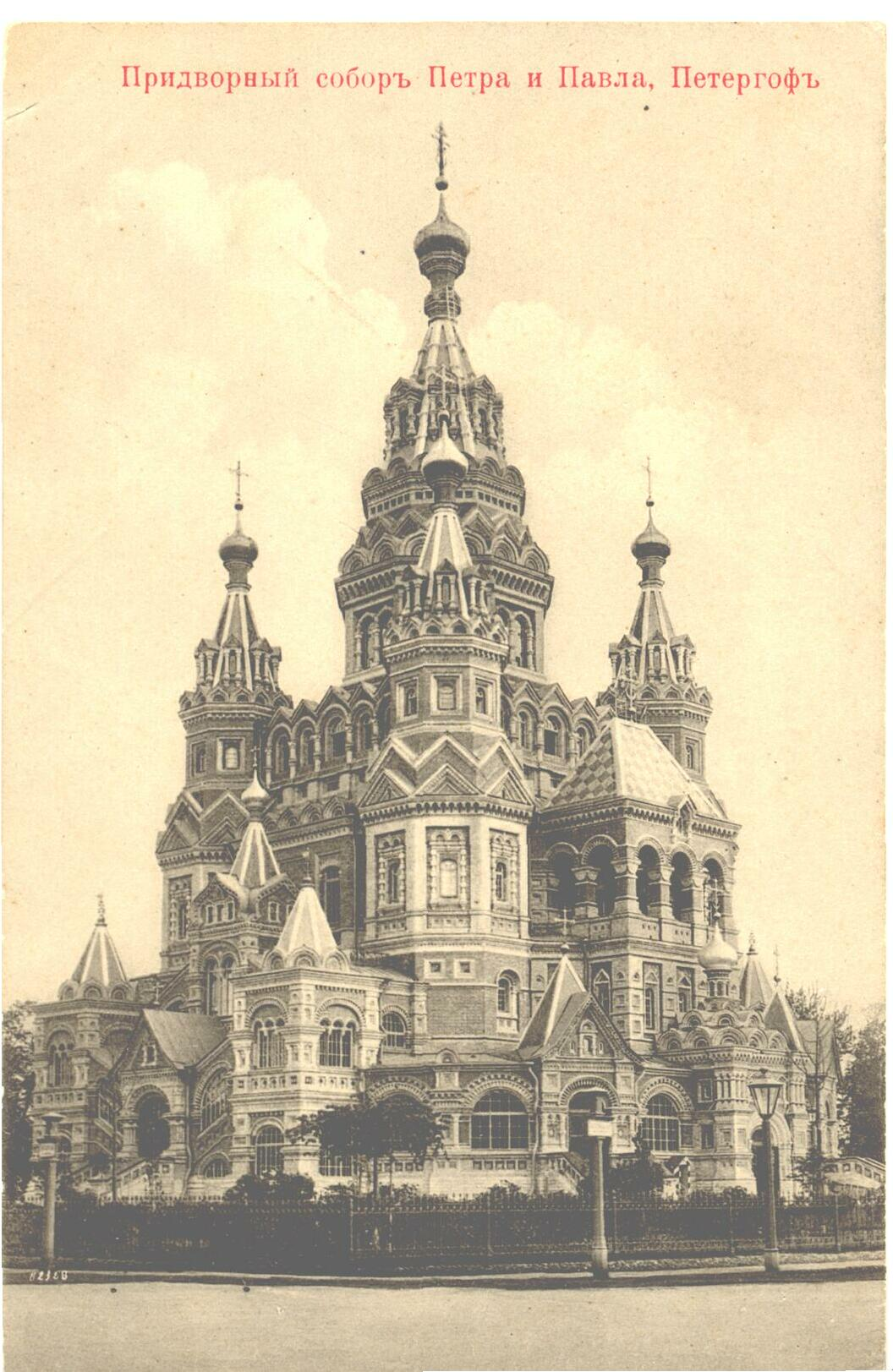 Peterhof (Russia), Cathedral of Peter and Pavel